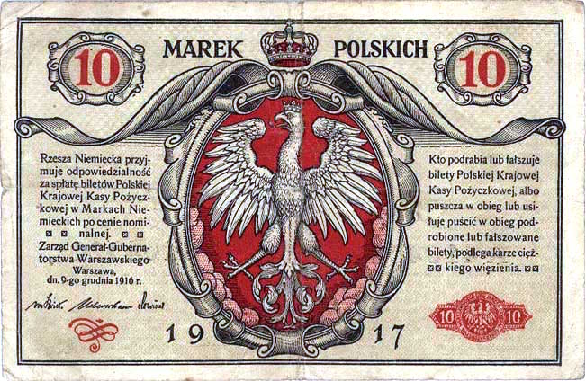 10 Marka Polska, Polish currency unit from 1917.